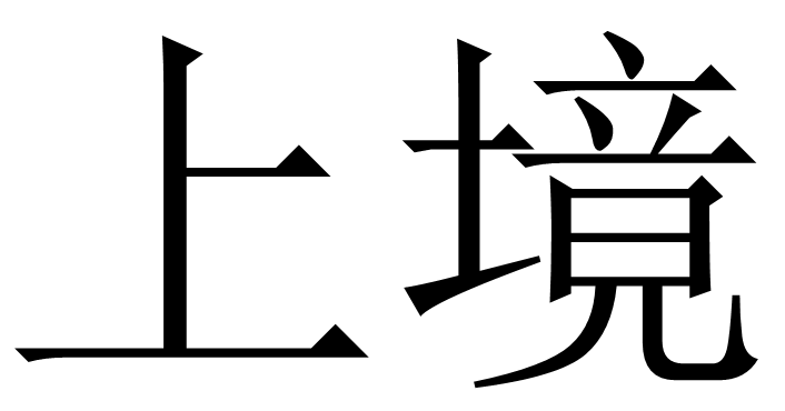 "Shangjing" in Simplified Chinese characters